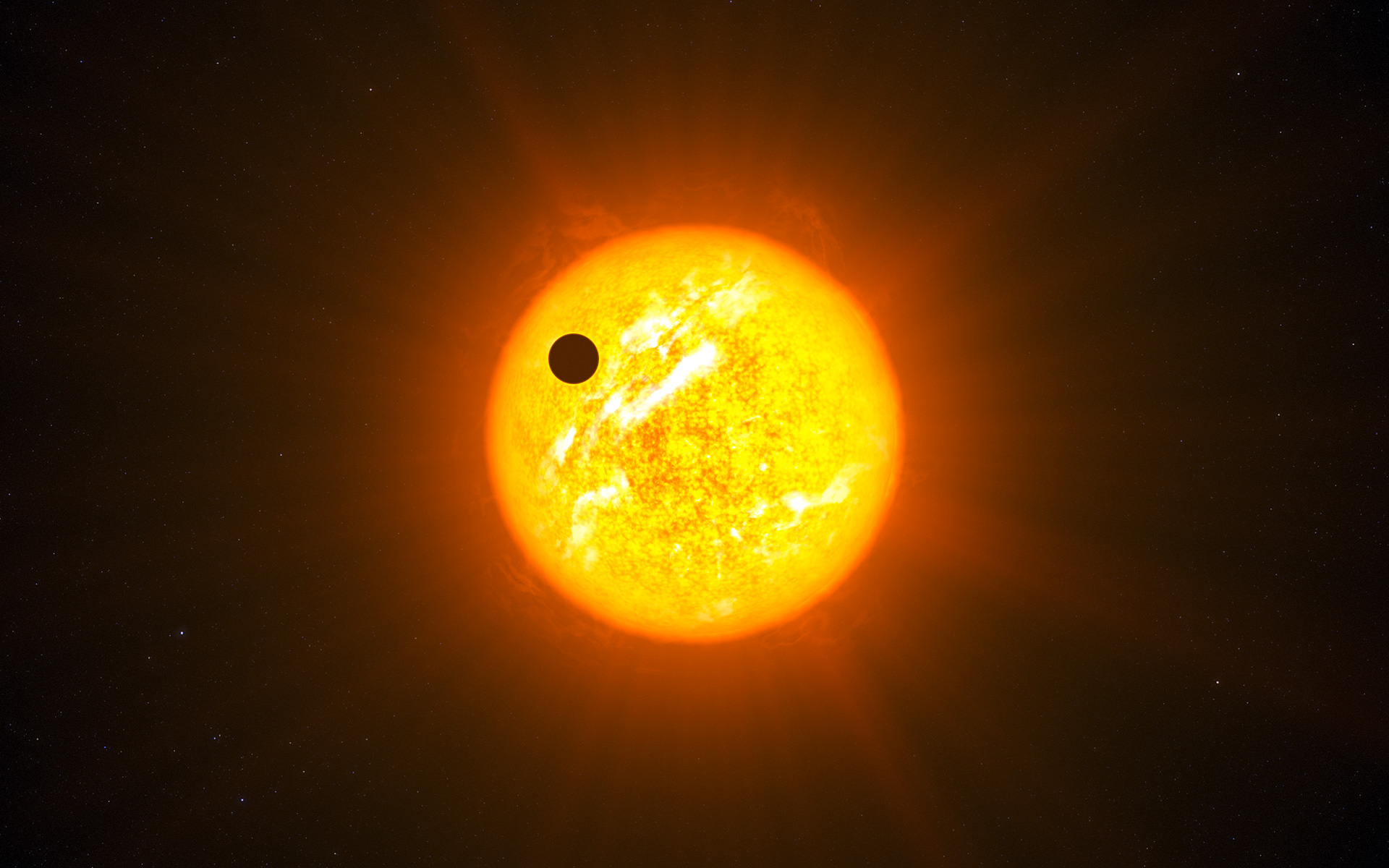 Up to now it was expected that exoplanets would all orbit in more or less the same plane, and that they would move along their orbits in the same direction as the star’s rotation — as they do in our Solar System. However, new results unexpectedly show that many exoplanets actually orbit at a large angle to their star’s spin axis. In the case shown here (WASP 8b) the orbit is completely reversed, or retrograde.